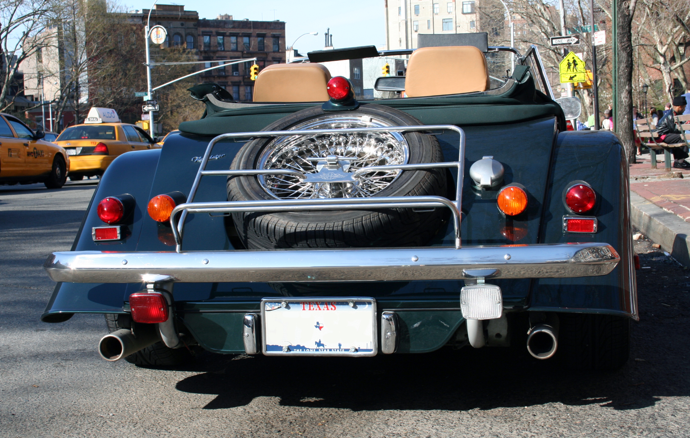 US-market 1998 Morgan Plus 8 in NYC